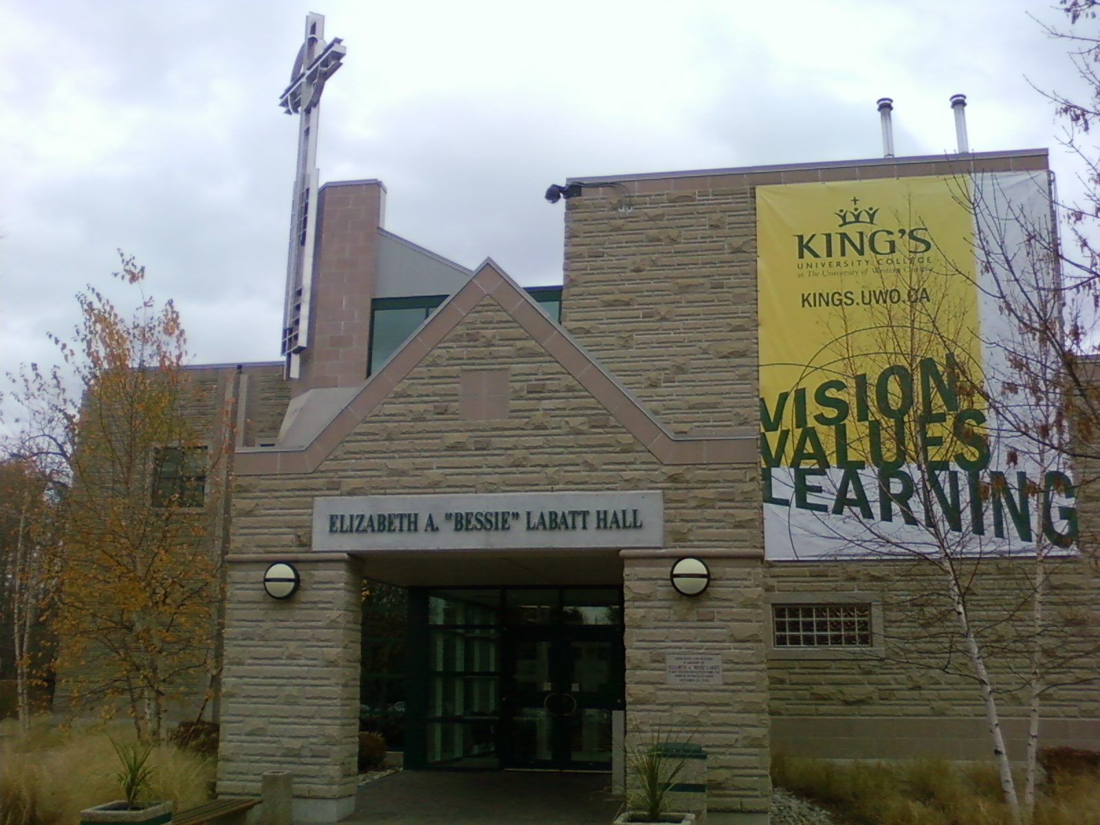 An image of Labatt Hall at King's University College UWO